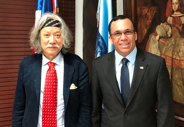 Jin Akiyama, Specially Appointed Vice President of Tokyo University of Science, met Andrés Navarro, Minister of Education, in Dominican Republic on October 1, 2018.